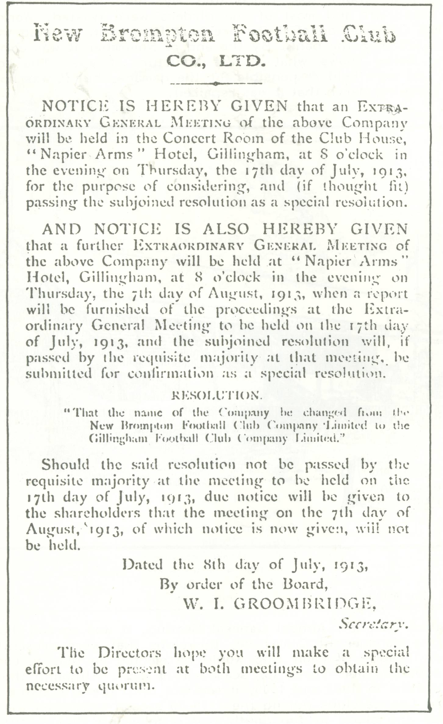 Press release announcing the change of name of New Brompton F.C. to Gillingham F.C..